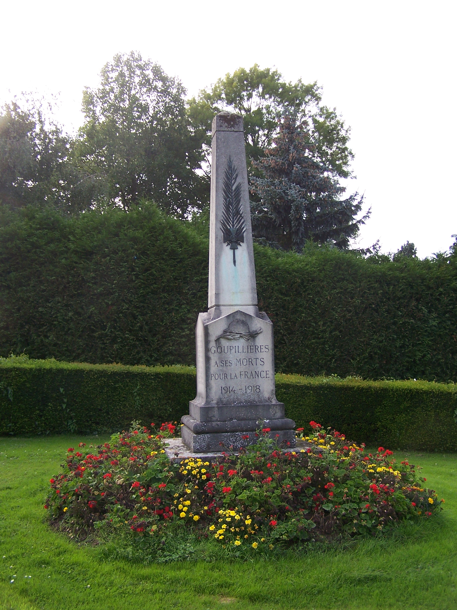 War memorial of Goupillières (Yvelines, France)